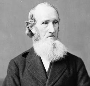 Hon. John Simpson, (Senator) b. May 1812 - d. 1885